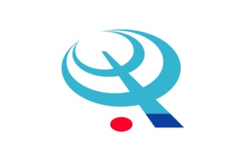 Flag of Kibichuo Okayama